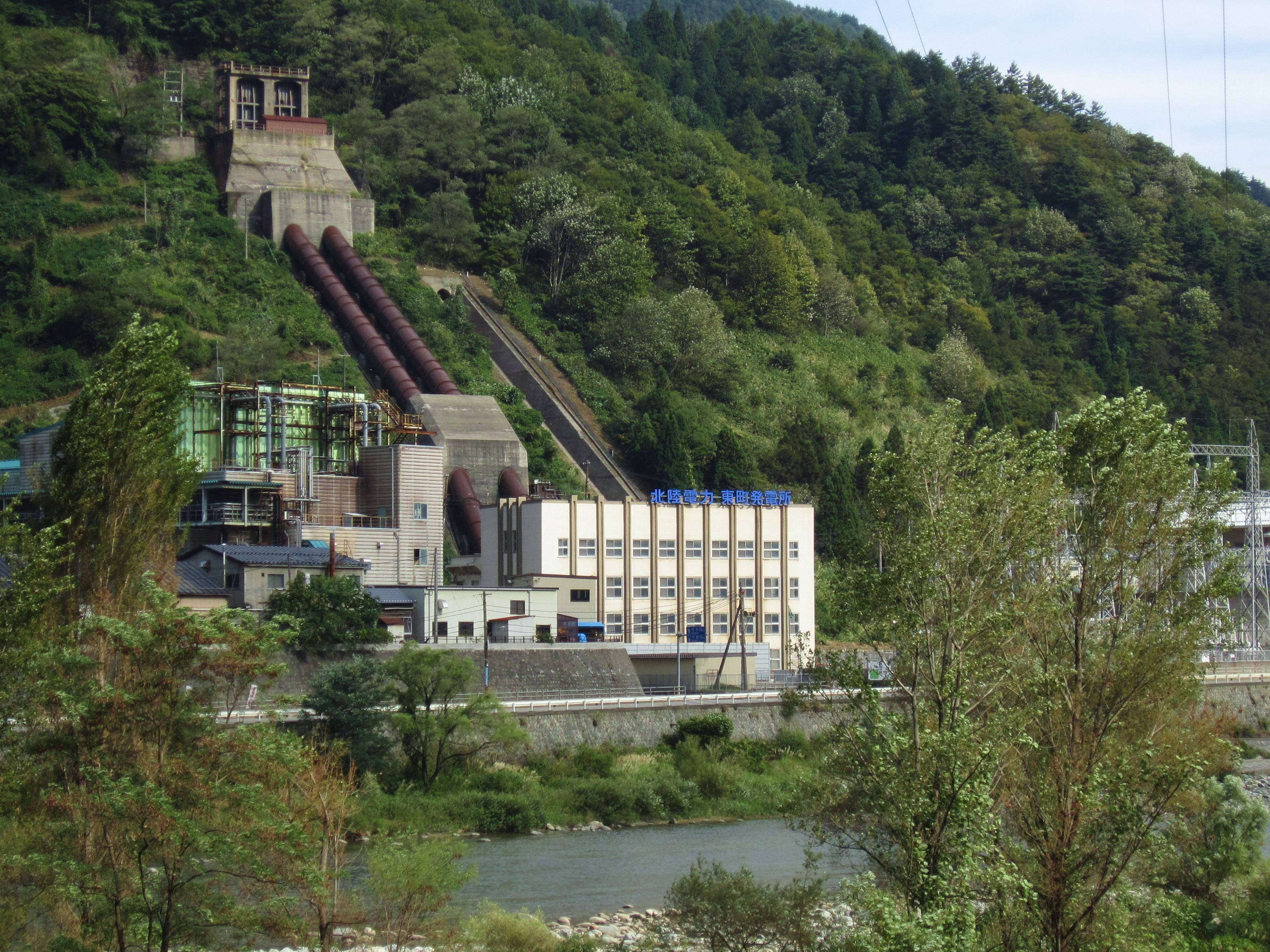 Higashimachi power station.